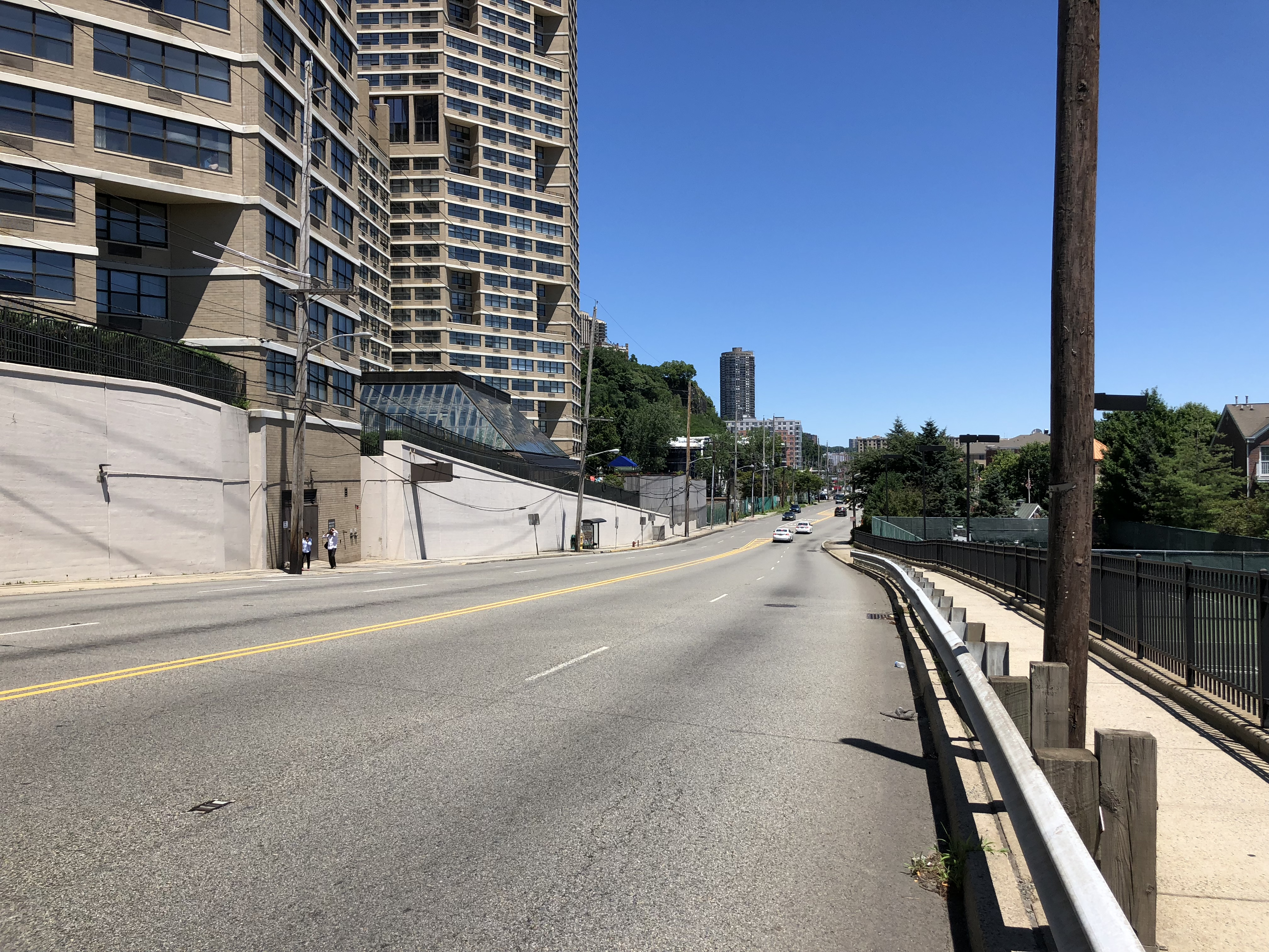 View north along Hudson County Route 505 (River Road) just north of Ferry Road in Guttenberg, Hudson County, New Jersey